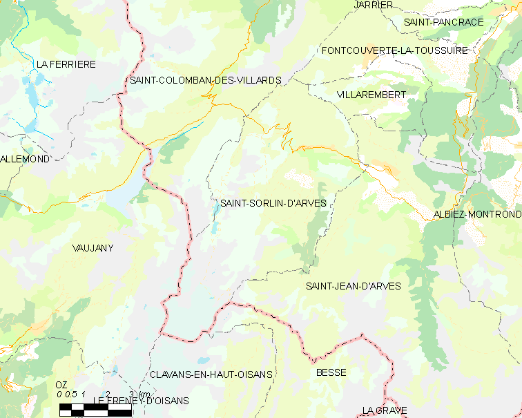 Map of French municipality Saint-Sorlin-d'Arves